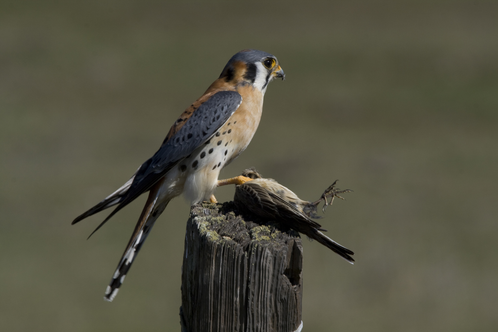 Male American Kestrel with a freshly killed American Pipit.